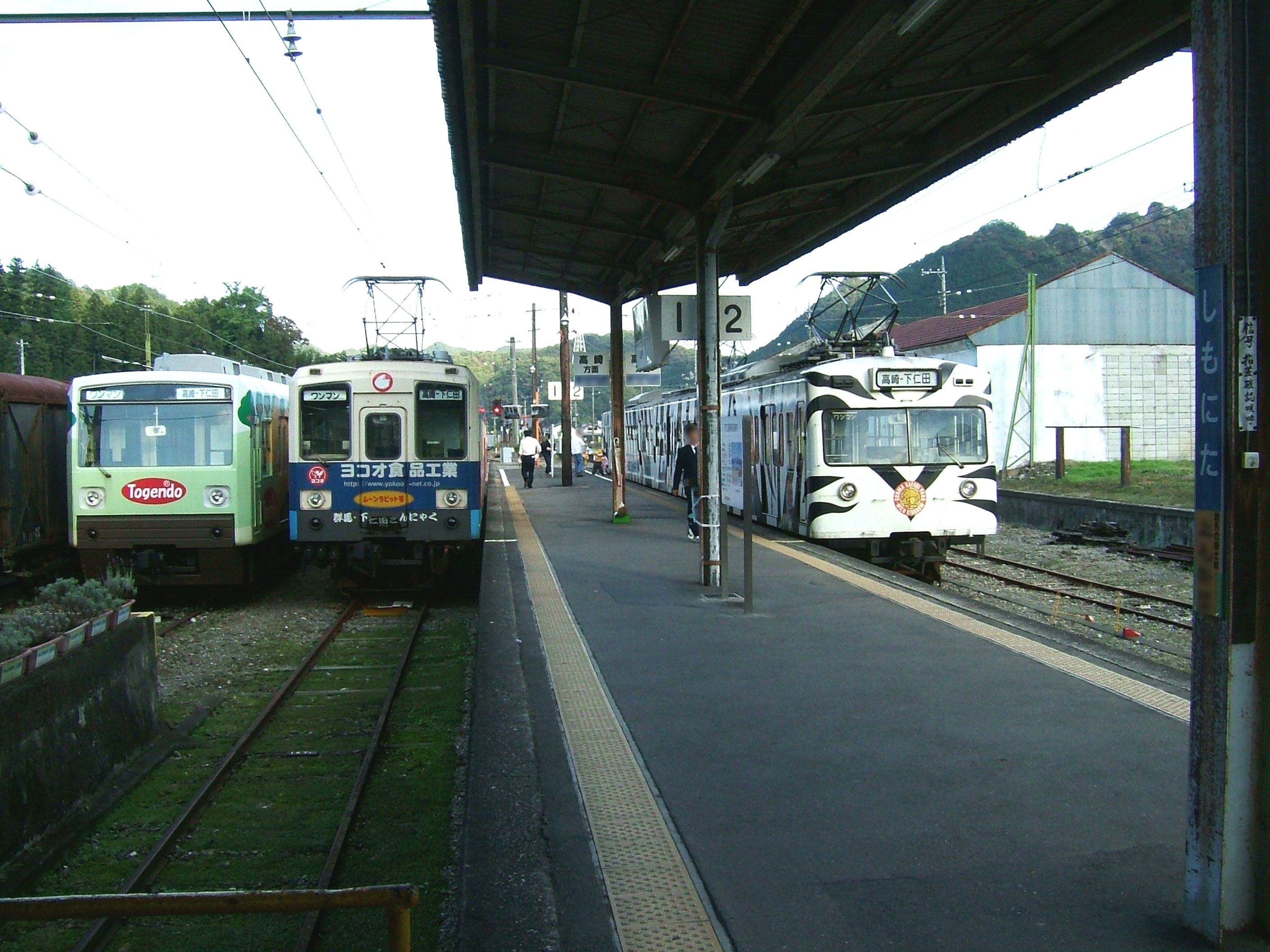 Shimonita Station platform (Jōshin Dentetsu Jōshin Line)